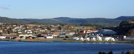 Botngaard2011